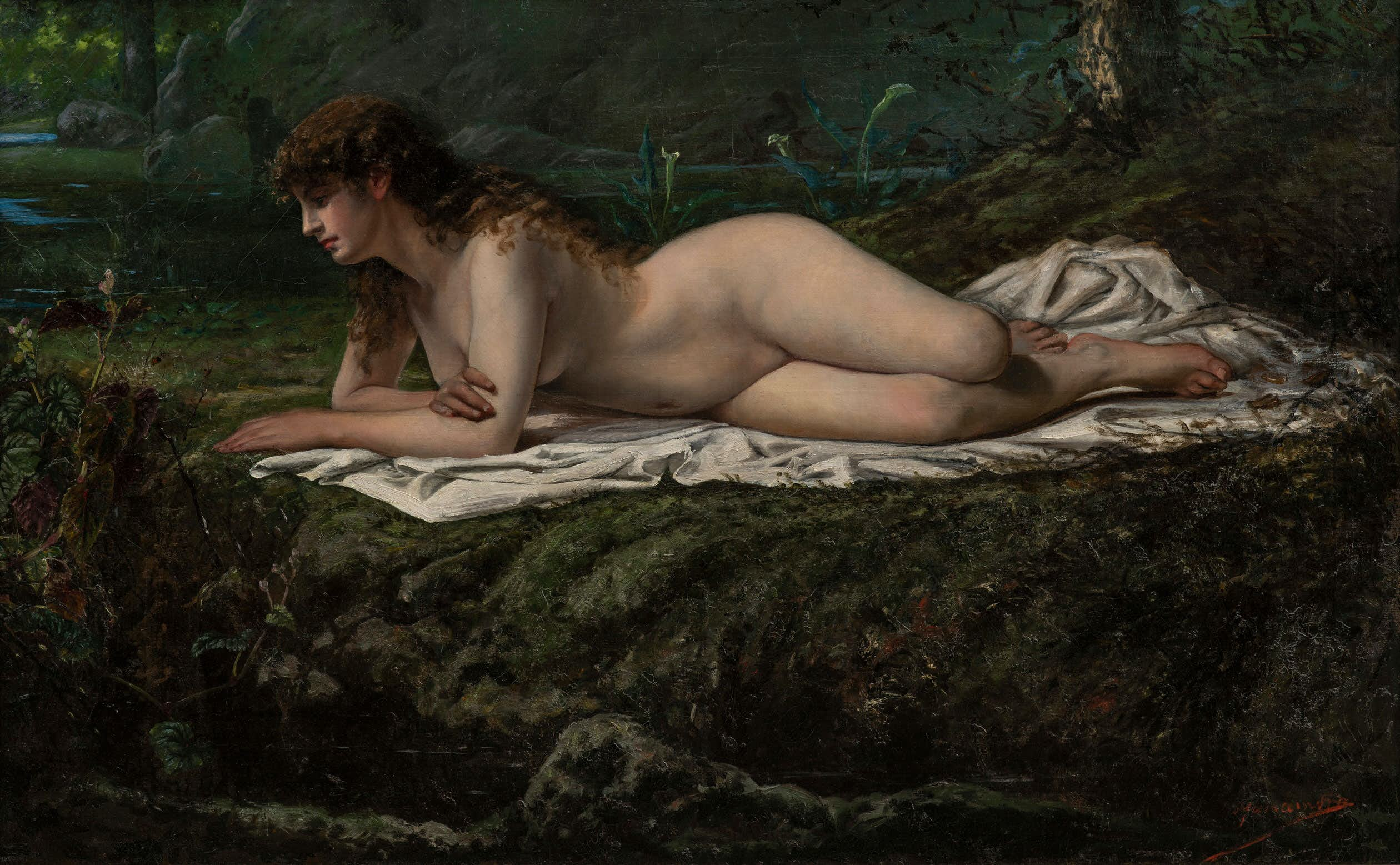 Painting of female nude, "Rafu". Important Cultural Properties of Japan